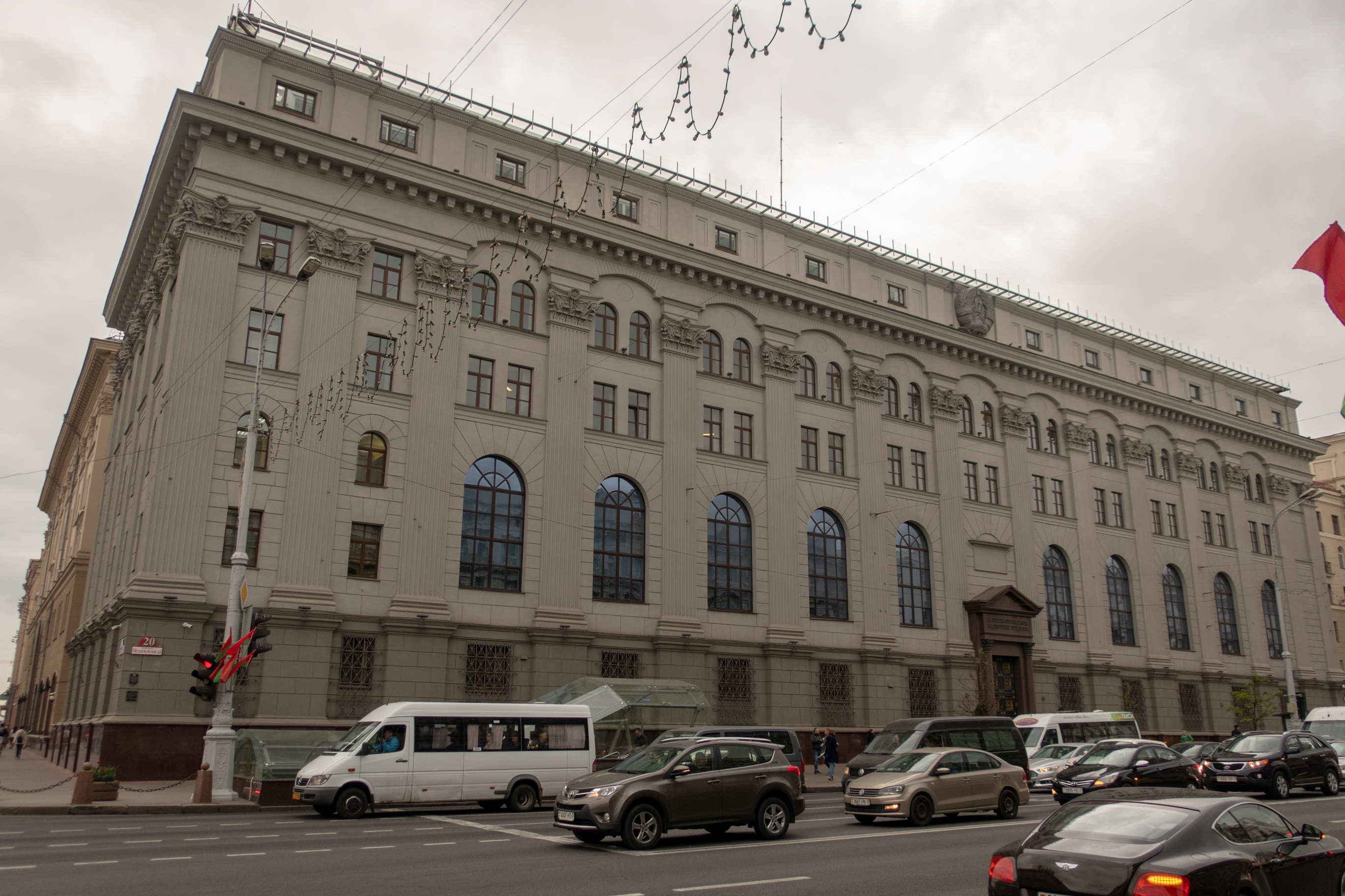 National Bank of Belarus